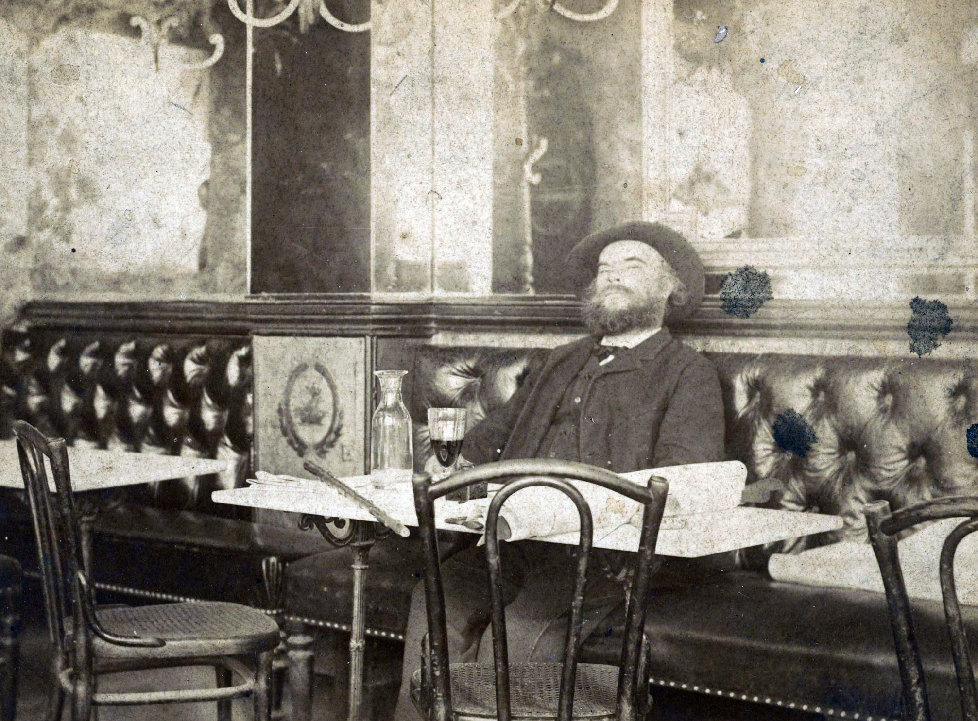 Photograph of French poet Paul Verlaine (1844-1896), seated at a table in the Café François Ier, Paris, 1892. Photographed by Dornac. Edited: Cropped and adjusted for brightness/contrast and color. MS Eng 1148 (1749), Houghton Library, Harvard University